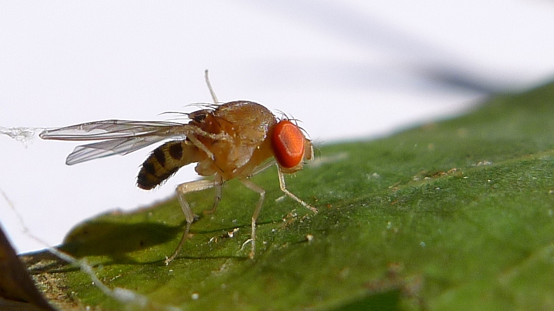 A female fruit fly, Leucophenga scutellata, a common species of Drosophilidae, was tangled up in a spider web on the underside of a Japanese Maple leaf. Como NSW Australia, June 2012. Thanks to Shane McEvey for the id.